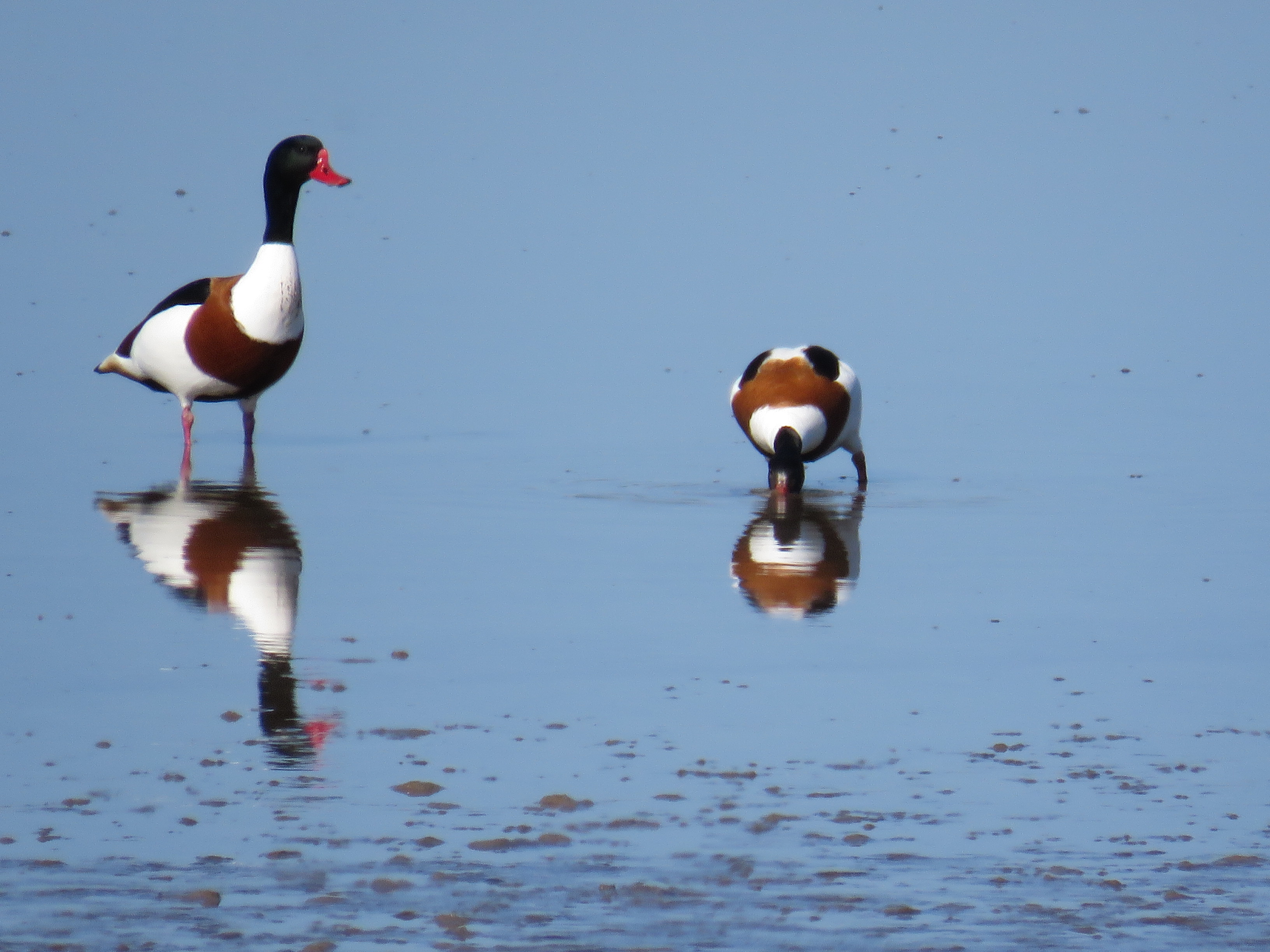 Shelducks at Seaforth Dock, Liverpool